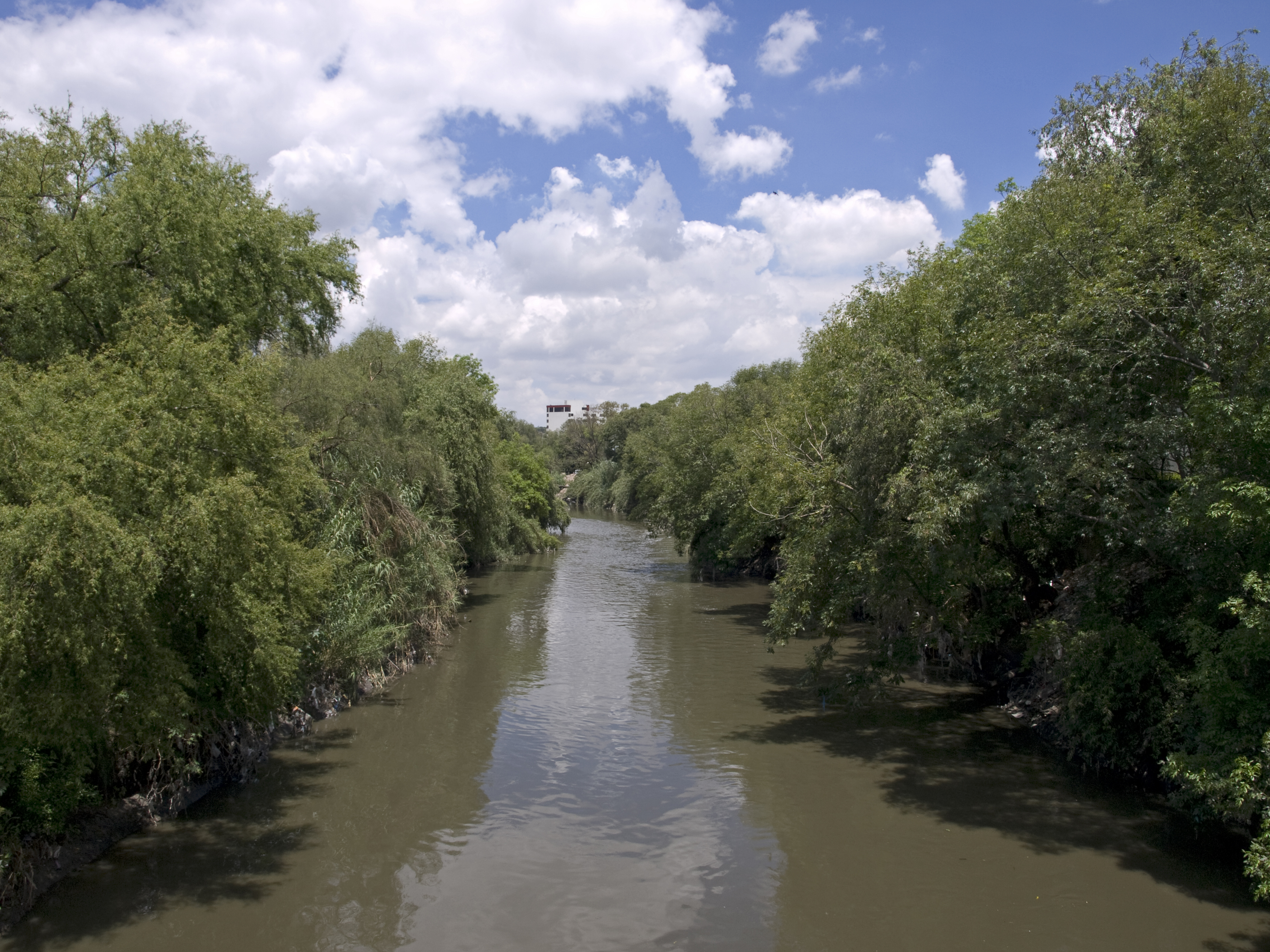 Tula River in Tula de Allende, from Calle Zaragoza to the south